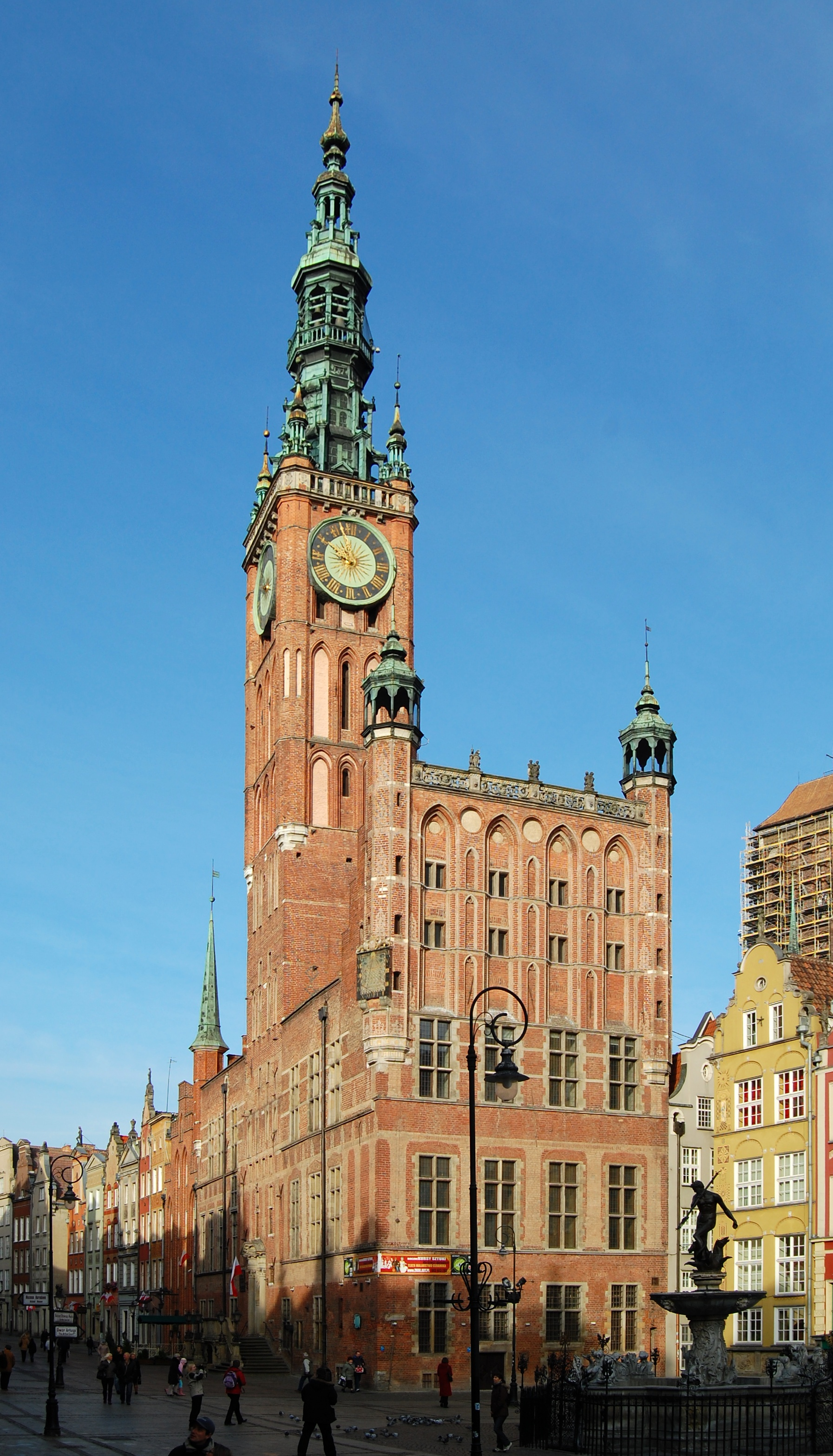 City Hall in Gdańsk, Poland.